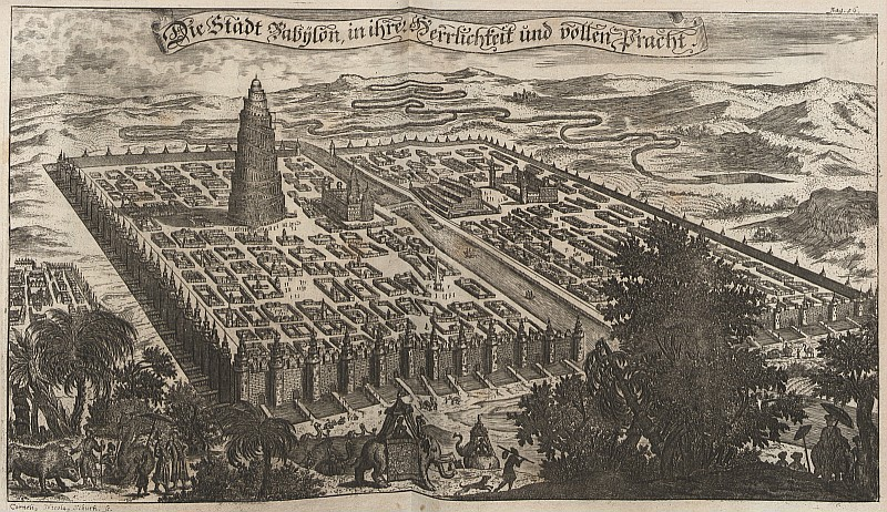 Original image description from the Deutsche Fotothek Theosophie & Architektur